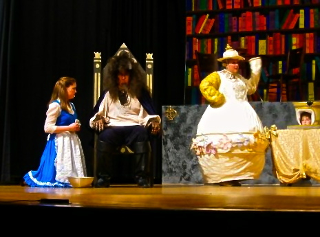 MCC Theatre Department performs Beauty and the Beast